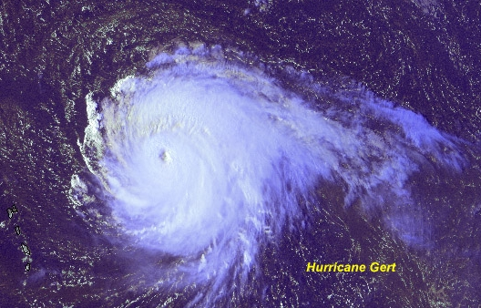 Hurricane Gert